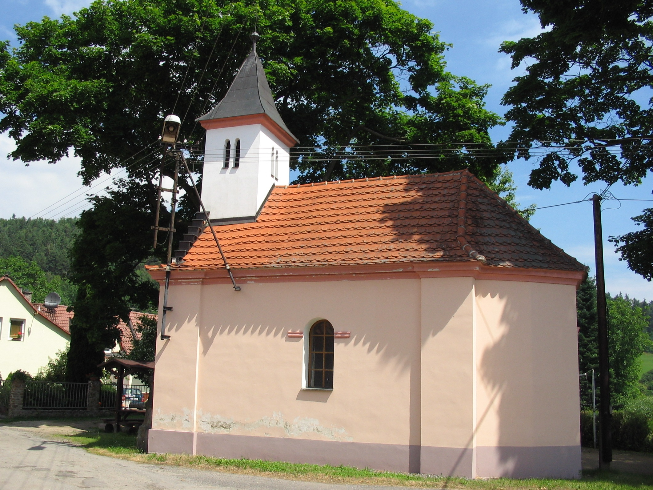 Chapel in Jetišov, Strakonice District, Czech Republic